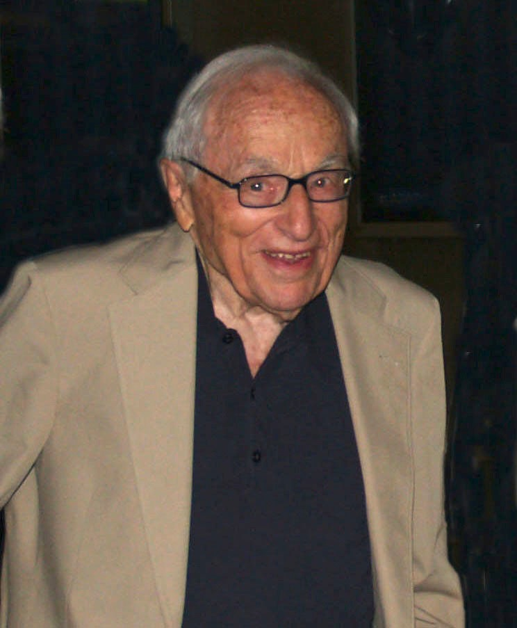 Screenwriter/producer Walter Bernstein following a June 7, 2016 screening and Q&A of the 1976 film The Front, whose screenplay Bernstein wrote, at the SVA Theater in Manhattan. This photo was created by Luigi Novi. It is not in the public domain, and use of this file outside of the licensing terms is a copyright violation.